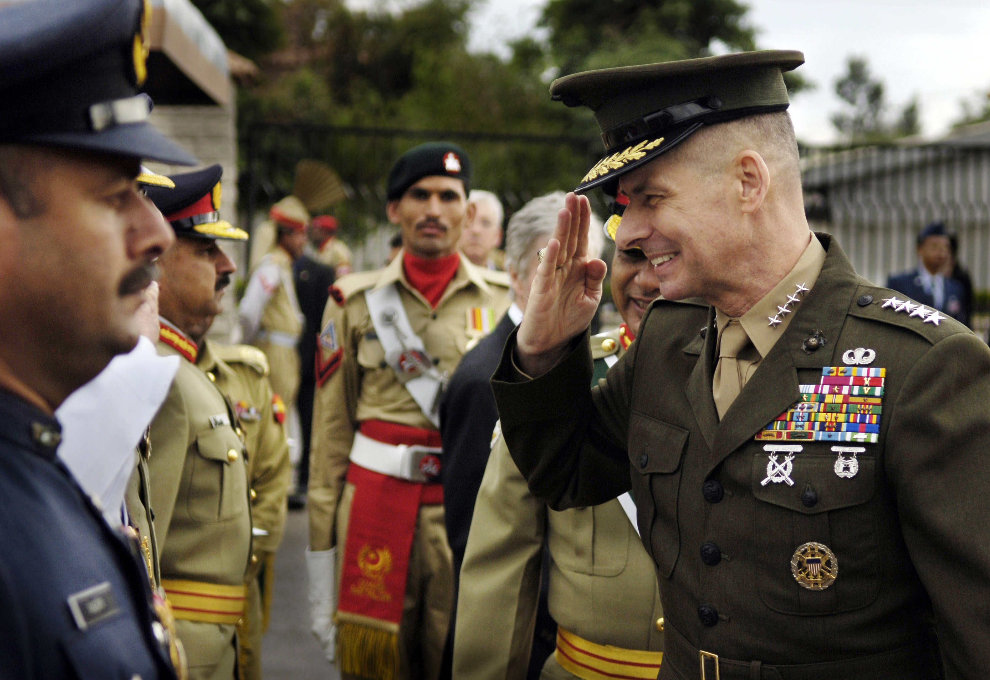 Chairman of the Joint Chiefs of Staff Gen. Peter Pace, U.S. Marine Corps, salutes as he is introduced to a member of the Pakistani Joint Chiefs at the Joint Forces Command in Islamabad, Pakistan, on Mar. 20, 2006. Pace is in Islamabad to meet with his Pakistani counterpart Gen. Ehsan Ul Haq. Pace will later visit with American servicemembers who deployed to Pakistan for humanitarian relief efforts following the October 2005 earthquake near Muzaffarabad that killed an estimated 75,000 Pakistanis.